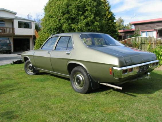 1971-1974 Holden HQ Kingswood.